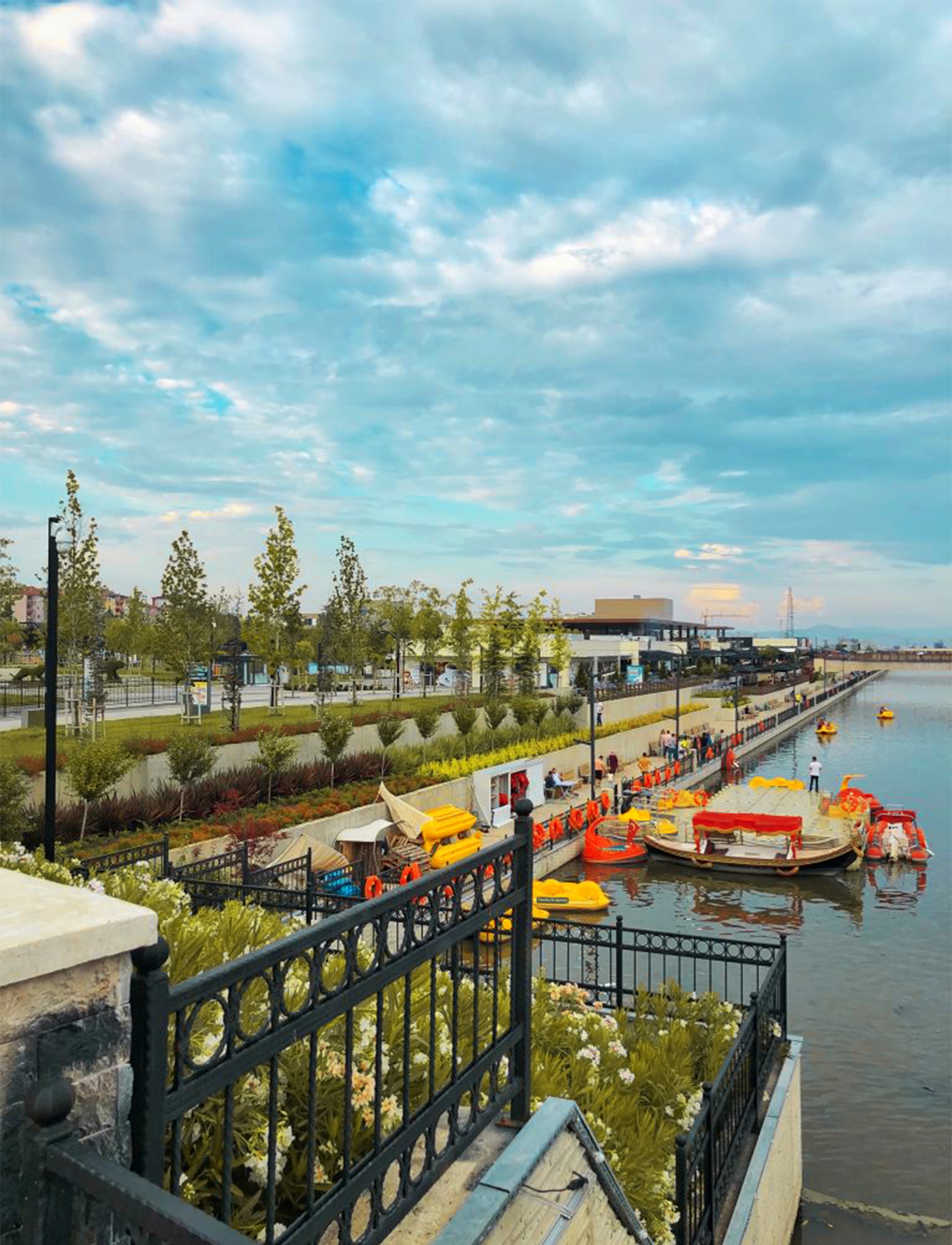 Avlu Balikesir Public Garden and Shopping Center